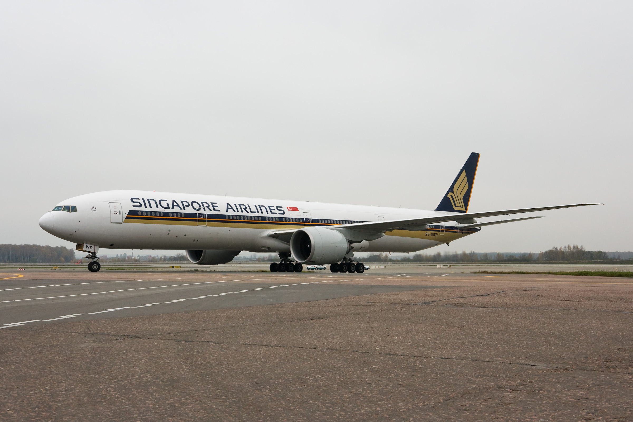 Singapore Airlines Boeing 777-312-ER